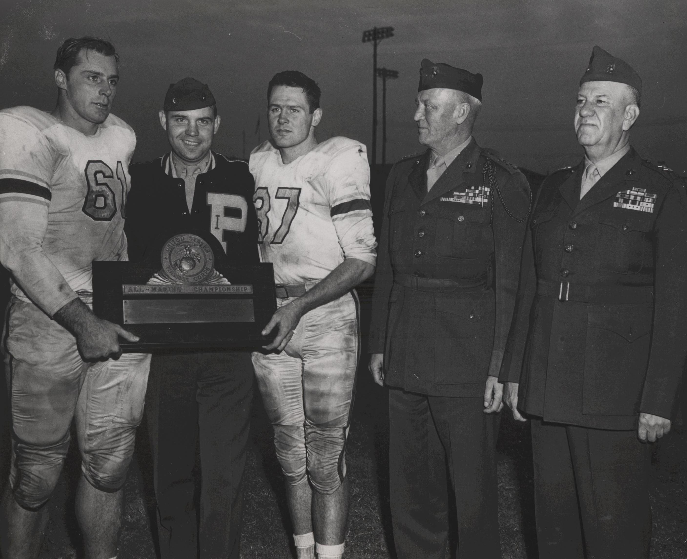 "All Marine Champions, Parris Island, S.C., After an impressive victory over the San Diego eleven in the All Marine Championship game at Parris Island, recently, Parris Island Co-Captains with their coach, received the 'All Marine Championship' plaque from Lt. General Graves B. Erskine, as Maj. General Robert H. Pepper looks on. (L to R): No. 61, Co-Captain Don King; Parris Island Head Coach, Major John T. Hill; No. 37, Co-Captain Billy Hayes; Lt. General Graves B. Erskine, Commanding General, Fleet Marine Force, Atlantic at the Norfolk, Va. Naval Base; and Maj. General Robert H. Pepper, Commanding General, Marine Corps Recruit Depot, Parris Island, S.C." From the Graves B. Erskine Collection (COLL/3065) at the Marine Corps Archives and Special Collections OFFICIAL USMC PHOTOGRAPH